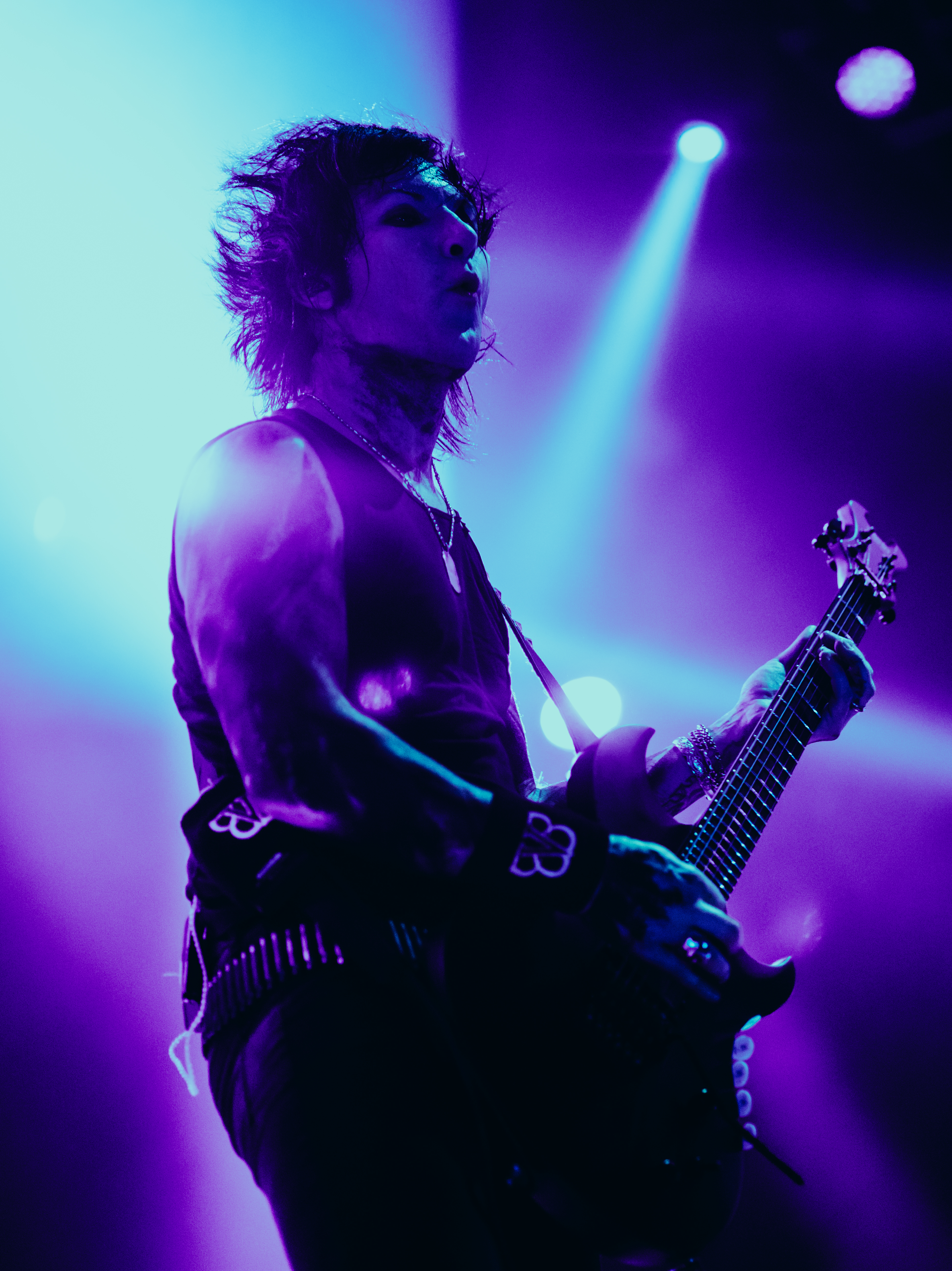 Jinxx performing with Black Veil Brides in Mexico City, March 6, 2020.